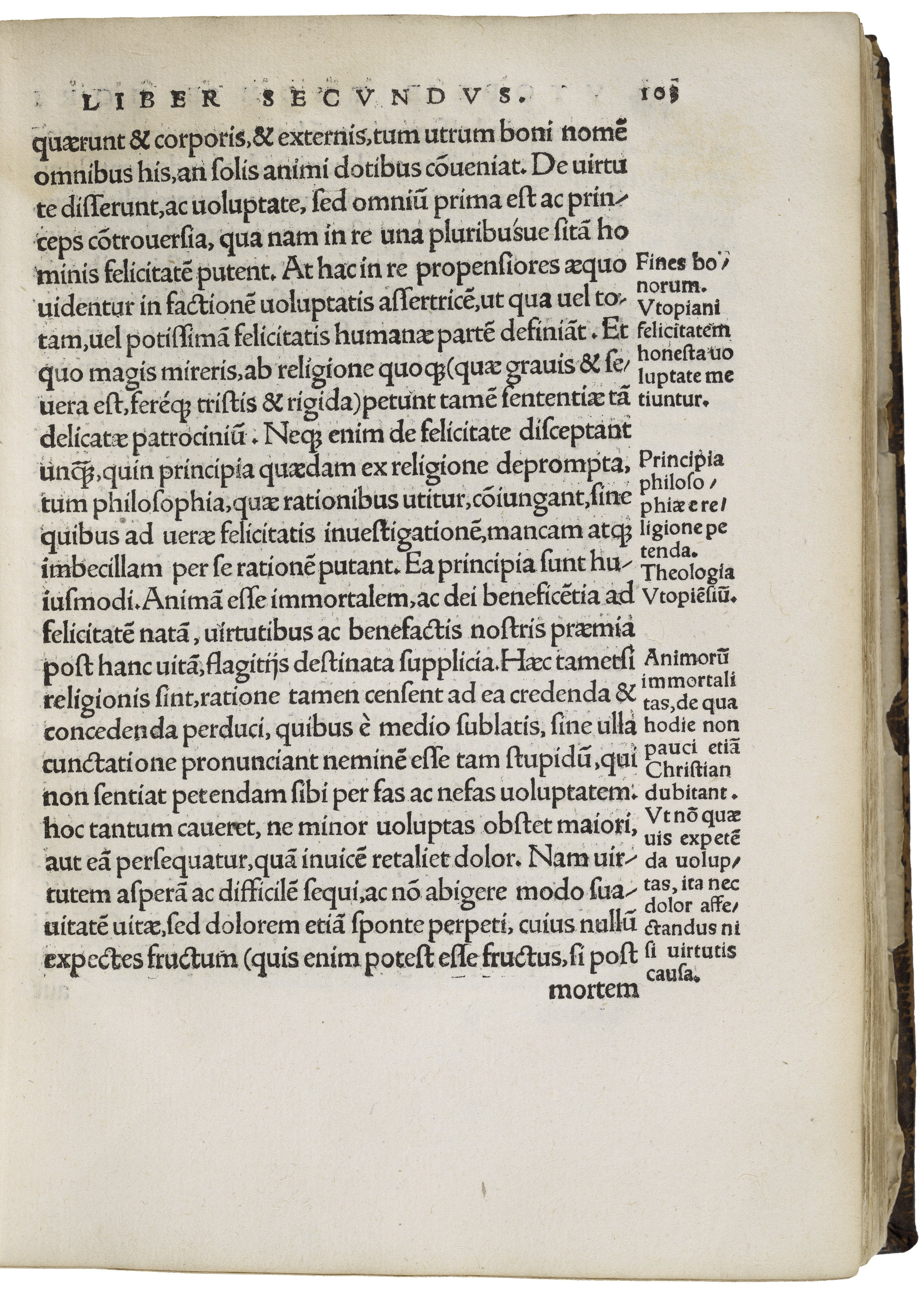 This is the page 103 of Thomas More's Utopia (november 1518)